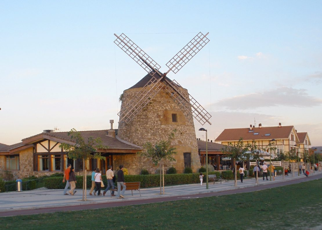 Molino de Aixerrota, en Santa María de Guecho (Vizcaya)